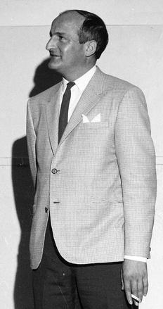 Gabriel Loubier in 1969, then minister of Tourism, Hunting and Fishing of Quebec. Picture taken at the Grand salon culinaire of the Institut de tourisme et d'hôtellerie du Québec. (Cropped from the larger original picture.)